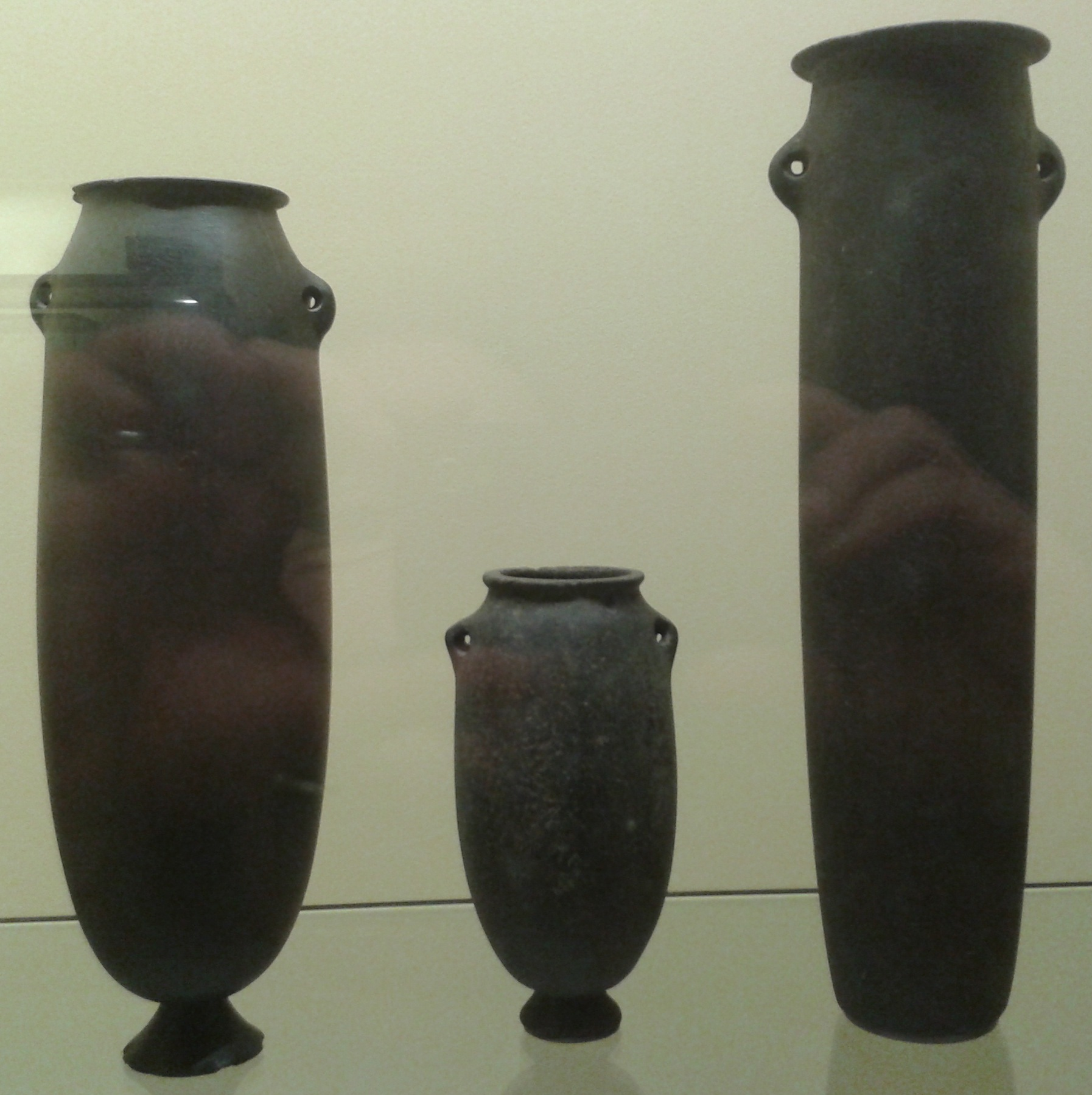 Basalt vessels of the Naqada I period. Musee du Louvre. From left to right: Vase-E 23175 Vase-E 10881 Vase-E 23175